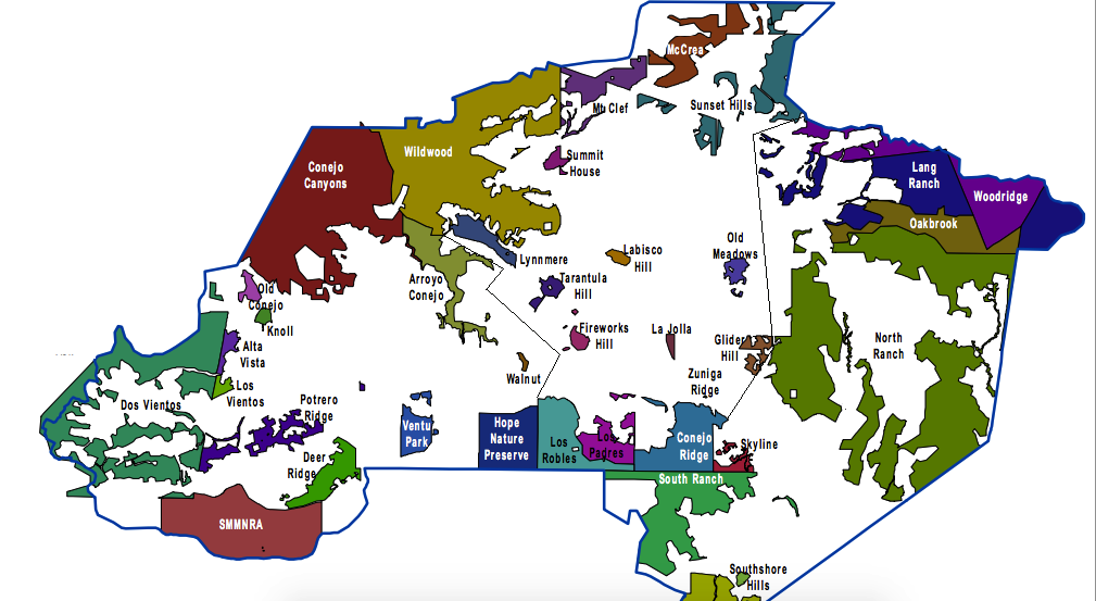 Map of open-space areas in the Conejo Valley, including Newbury Park, CA, Thousand Oaks, CA, and Westlake Village, CA.